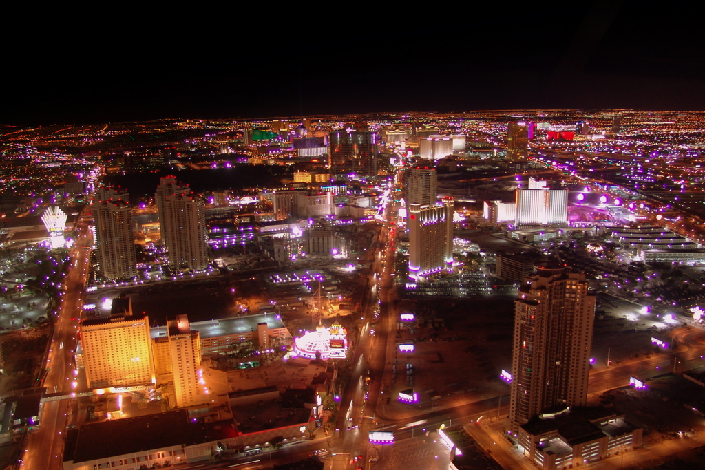 This is a night shot from the Stratosphere building in Las Vegas, Nevada.